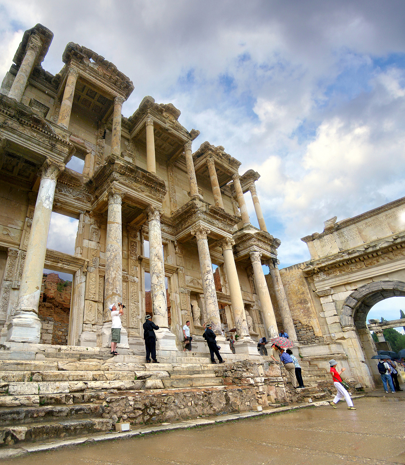 The Celsus Library in the ancient city of Ephesus, Turkey.